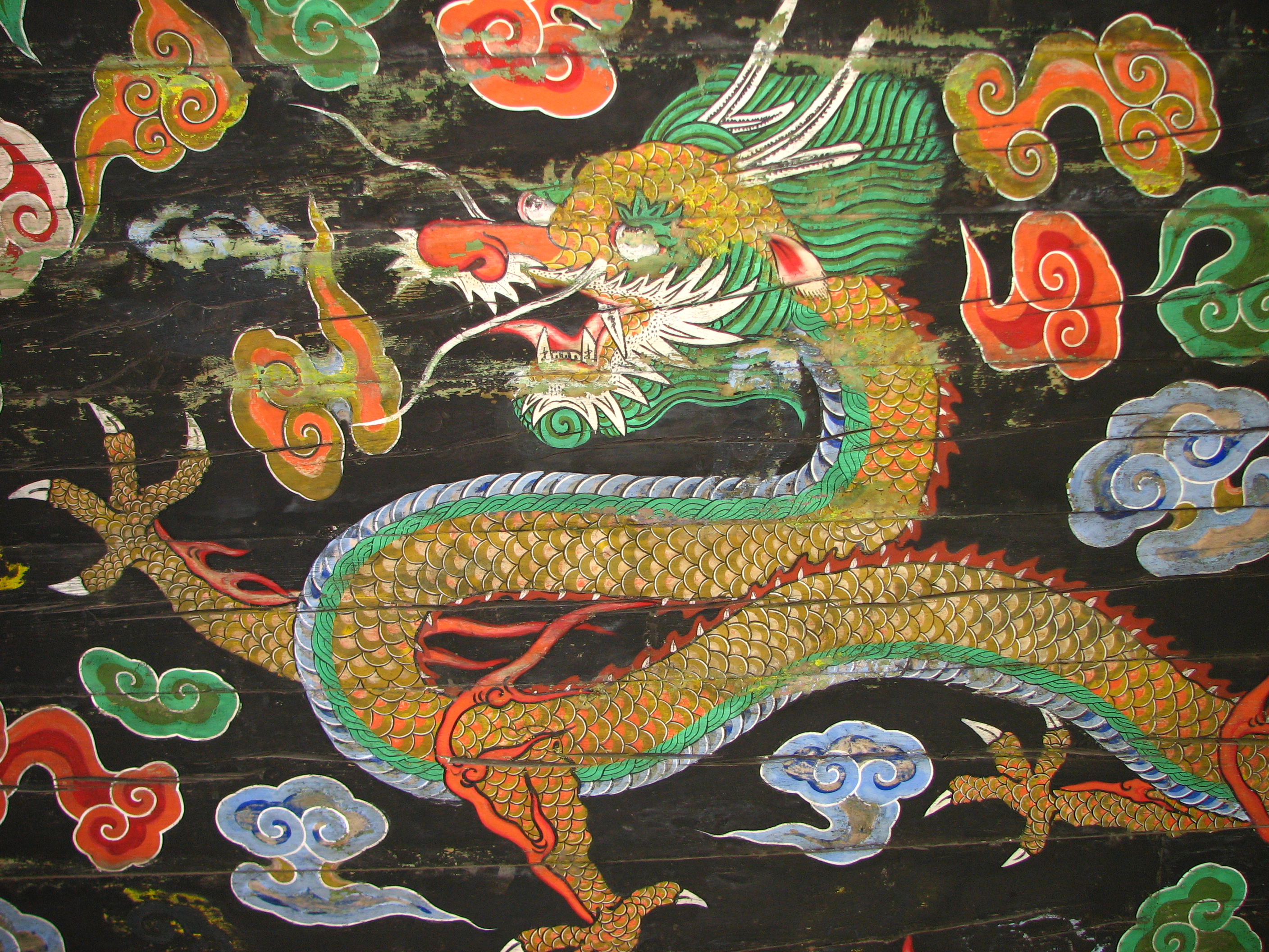 Dragon painting on the ceiling of Sungnyemun or Namdaemun in South Korea